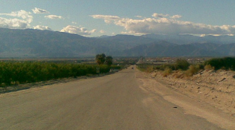 Thermal, California view from east end of Airport Blvd looking west. grove on left side, grapes on right side.